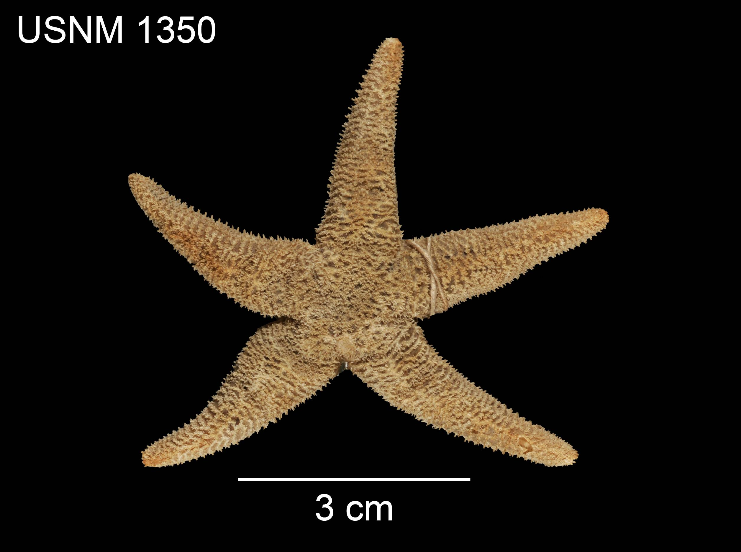 PRESERVED_SPECIMEN; Preparations: Dry; Asterias cribraria Stimpson, 1862; Individual count: 1; Type status: HOLOTYPE; Identified by: Stimpson, William; Event date: (no data); Additional description: dorsal